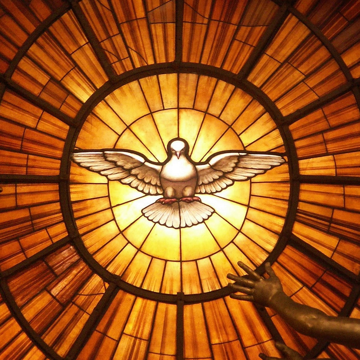 Gian Lorenzo Bernini, Dove of the Holy Spirit (alabaster stained glass, Chair of Saint Peter, Saint Peter's Basilica, Vatican City), ca. 1660